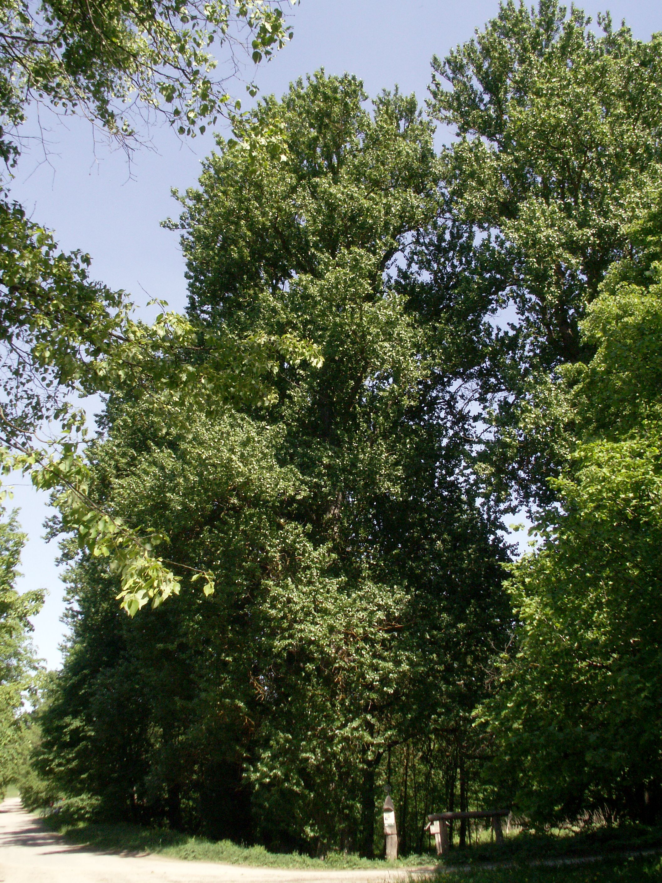 Bubiai Tilia, Šiauliai district, Lithuania